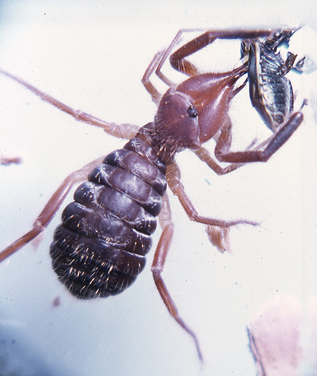 Gluvia dorsalis (Arachnida: Solifugae: Daesiidae) tearing apart a cabbage bug, Eurydema oleraceum. Photo taken in Madrid